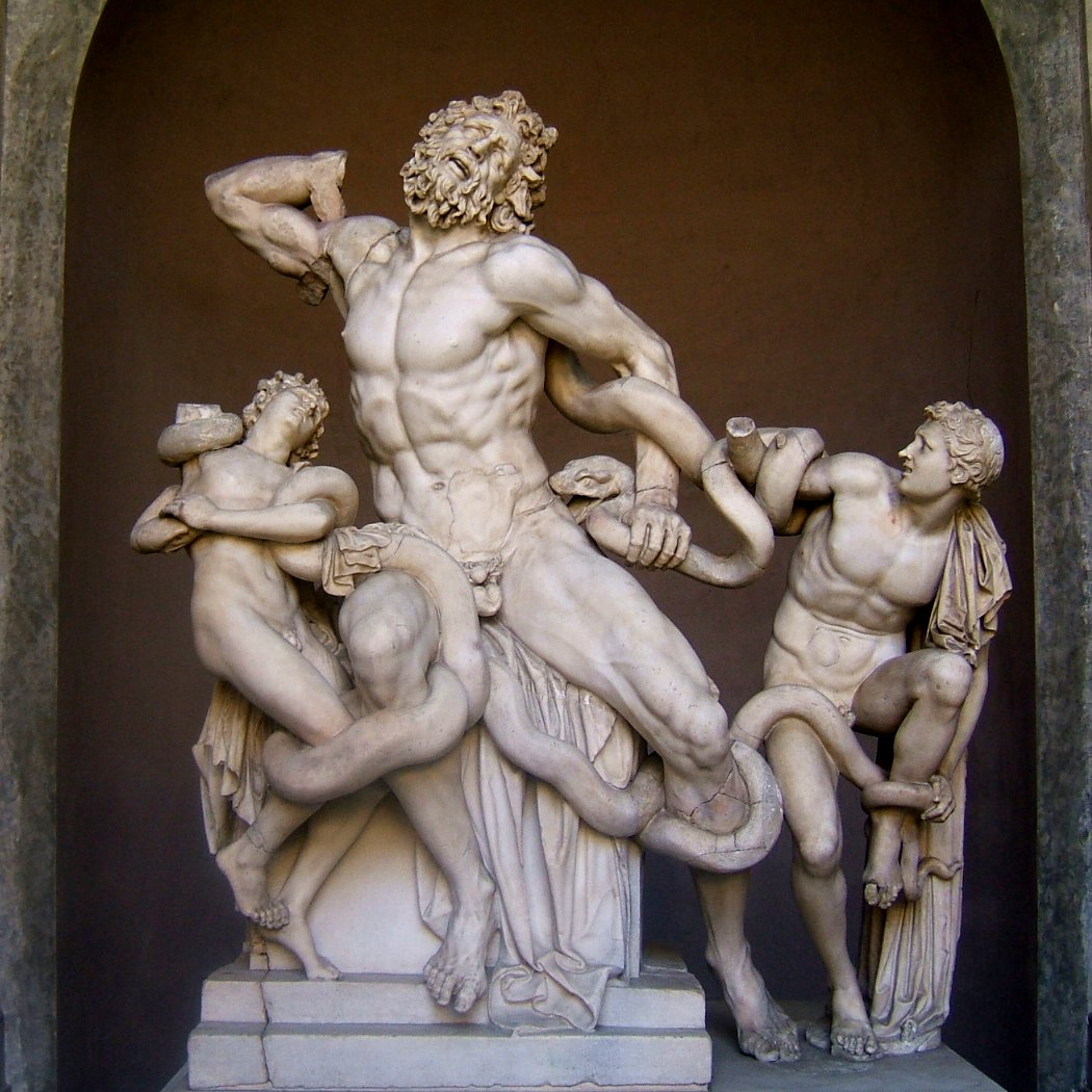 Laocoön and his sons, also known as the Laocoön Group. Copied from the original (ca. 200 BC) by the three Rhodian sculptors Agesander, Athenedoros and Polydorus. Museo Pio-Clementino, Vatican, Inv.1059, Inv.1064 and Inv. 1067. Height: 1,84 m (6').